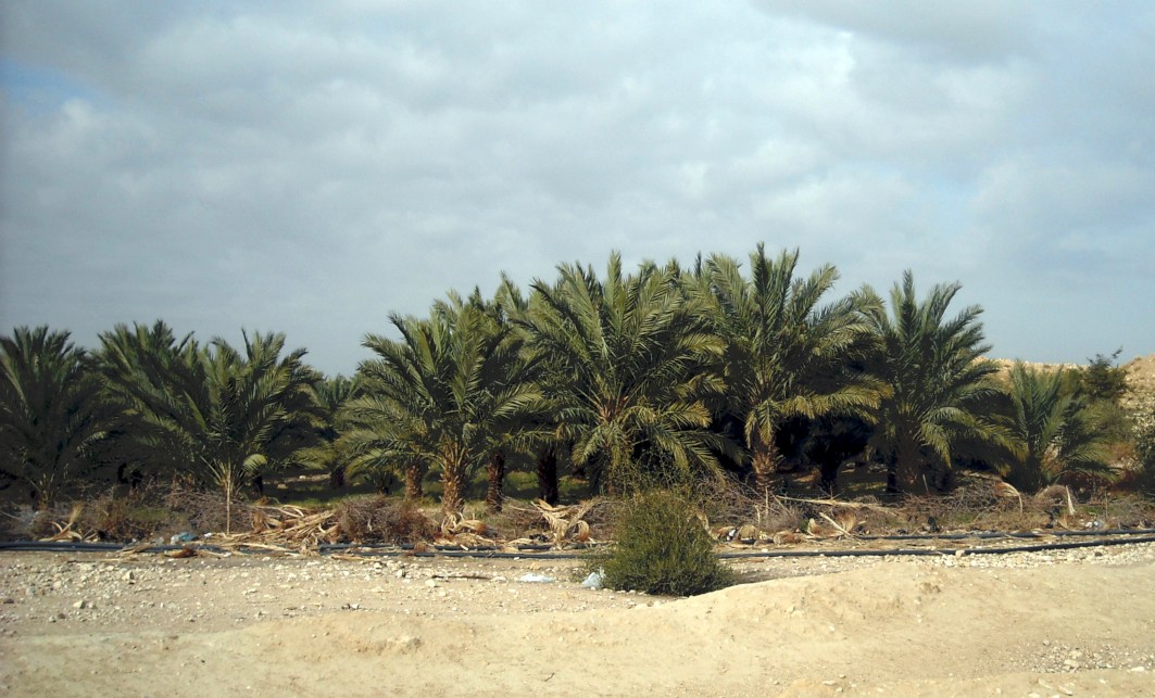 Josephus recorded that Herod the Great planted a renowned date-palm (Nicolaitan) plantation near the city of Livias (B.J. 2.59).